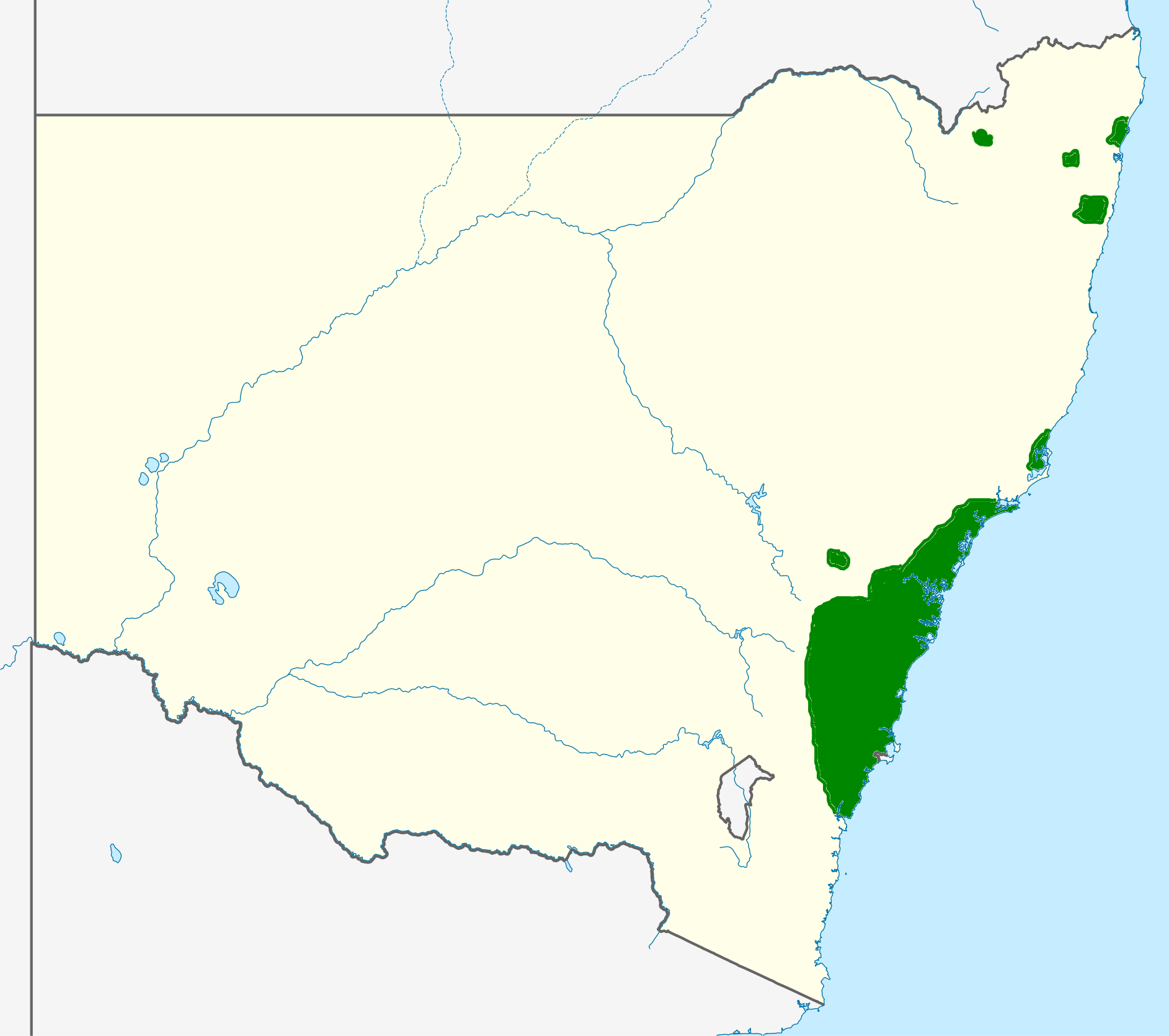 Lambertia formosa range, adapted from Weston, Peter H. (1995) "Persoonioideae" in McCarthy, Patrick (ed.) , ed. Flora of Australia: Volume 16: Eleagnaceae, Proteaceae 1, CSIRO Publishing / Australian Biological Resources Study, pp. 47–125 ISBN: 0-643-05693-9. . Original map is png version of File:Australia New South Wales location map blank.svg